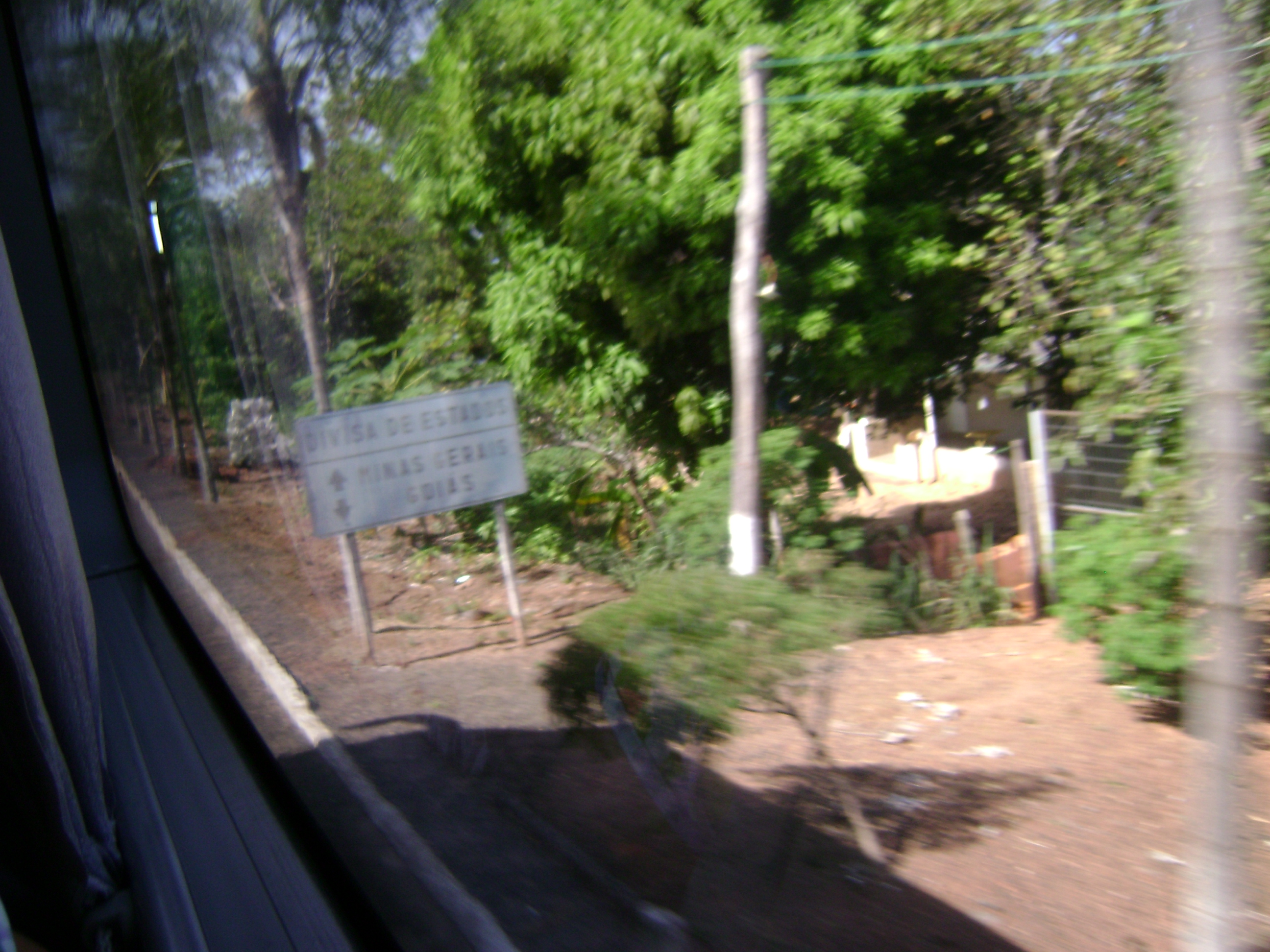 Sign of border of the states of Goiás and Minas Gerais, in Brazil.